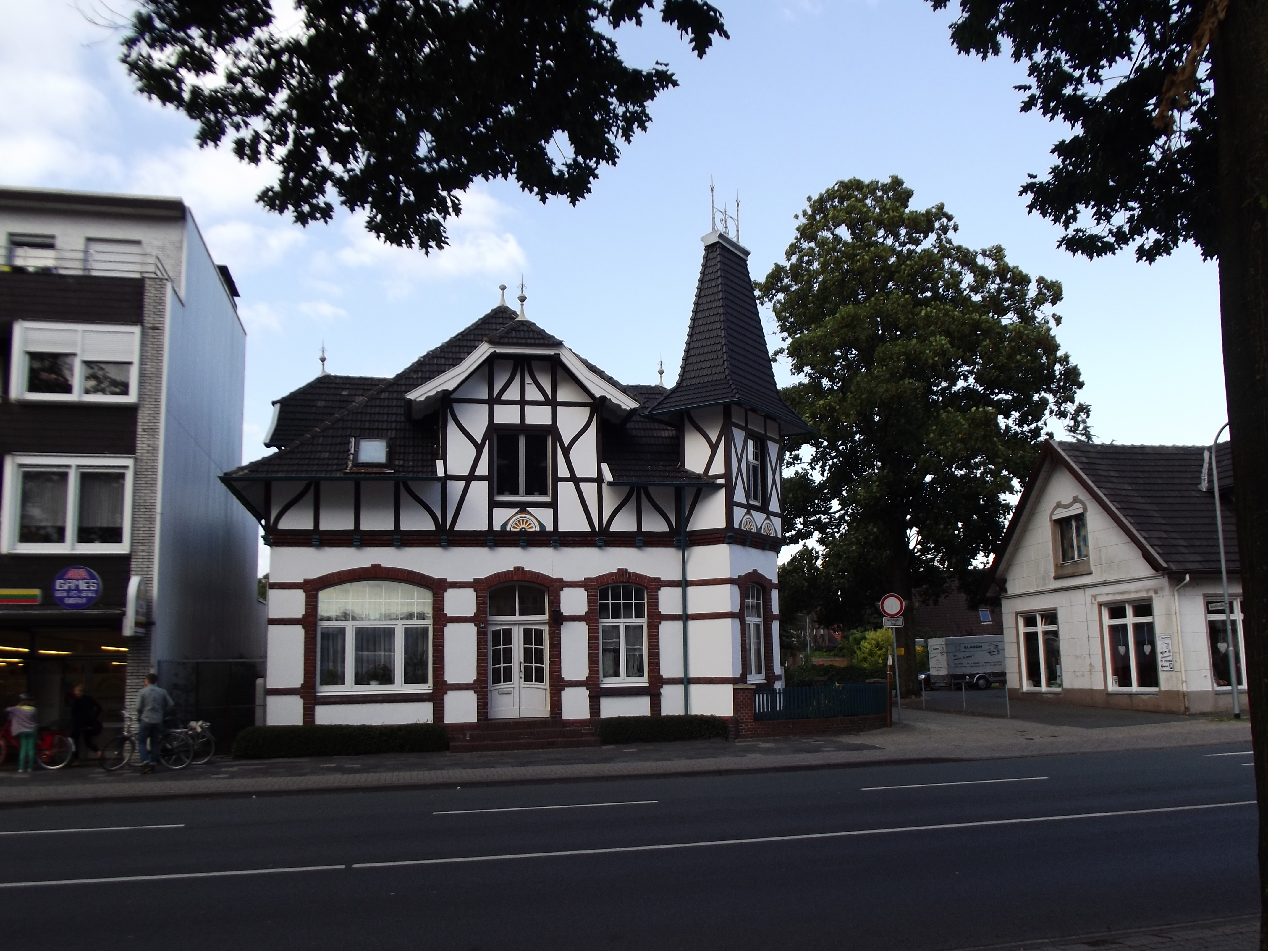 An interesting timber framing house